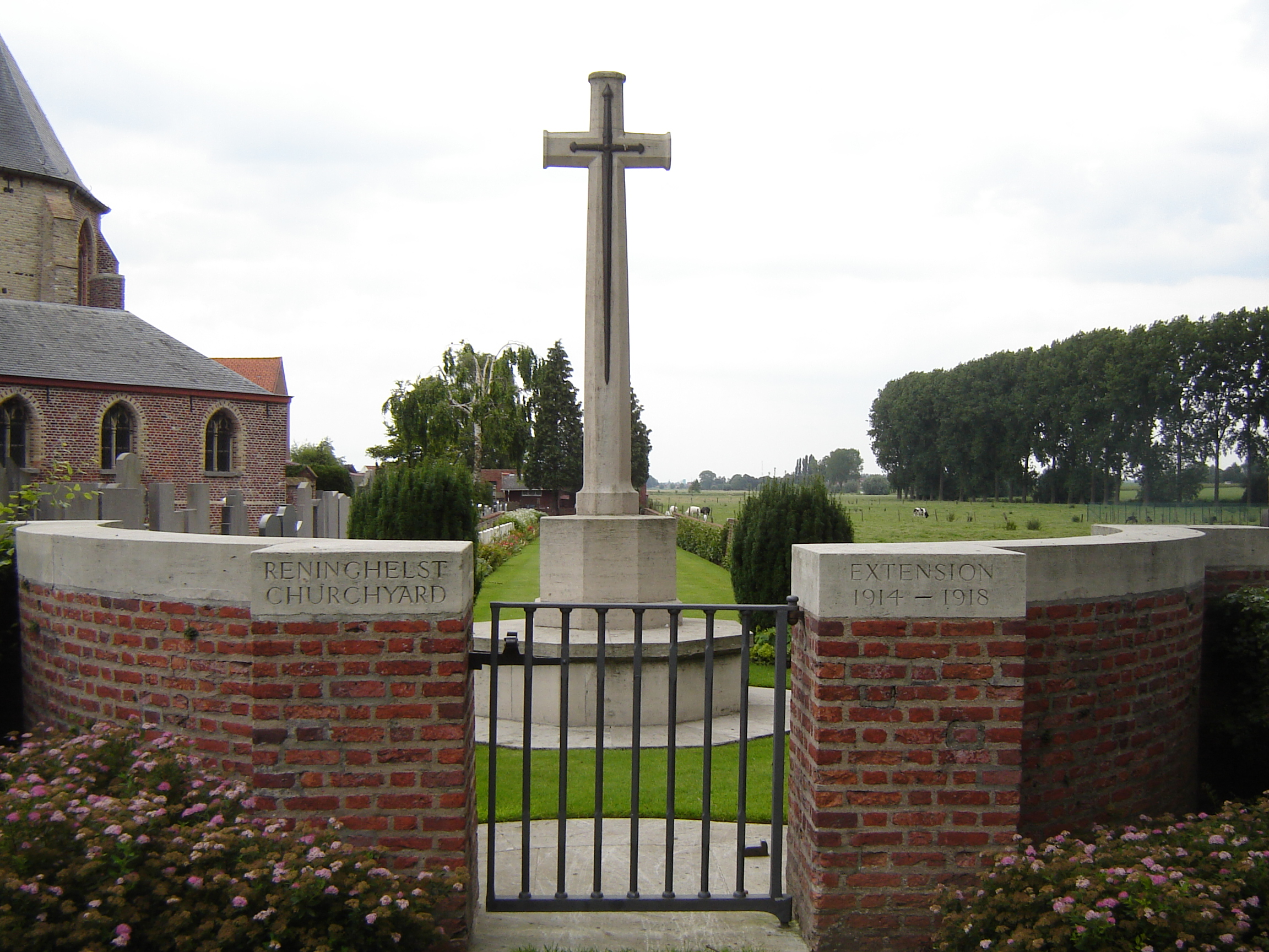 Reningelst Churchyard Extension. Commonwealth military cemetery next to the churchyard of the church of Saint Vedast in Reningelst. Churchyard: 3 burials from First World War; Extension: 56 from First World War and 3 from Second World War. Reningelst, Poperinge, West Flanders, Belgium.